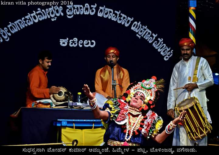 Yakshagana